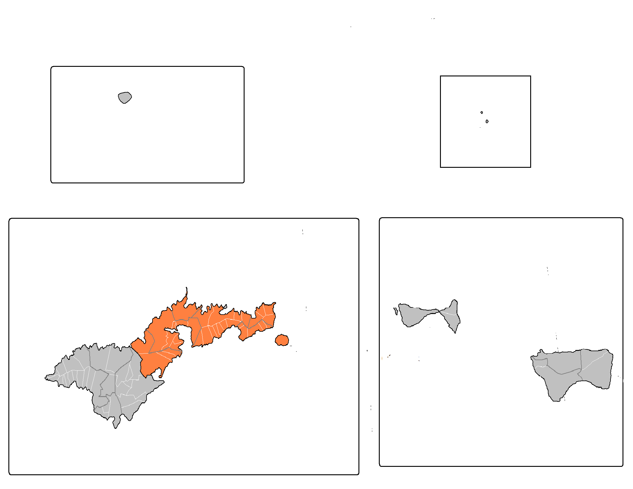 Locator maps of American Samoa: Eastern district